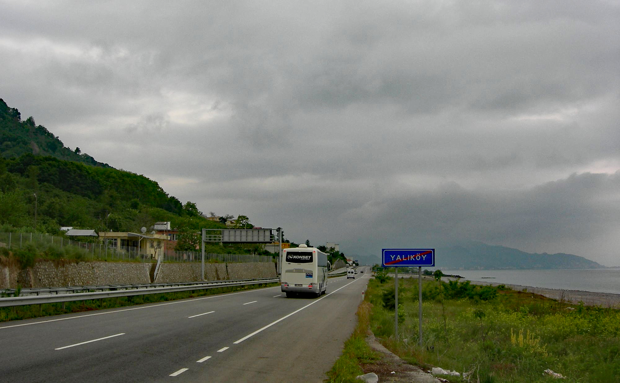 E70 European highway near the Black Sea at Yalıköy, Tirebolu, Turkey